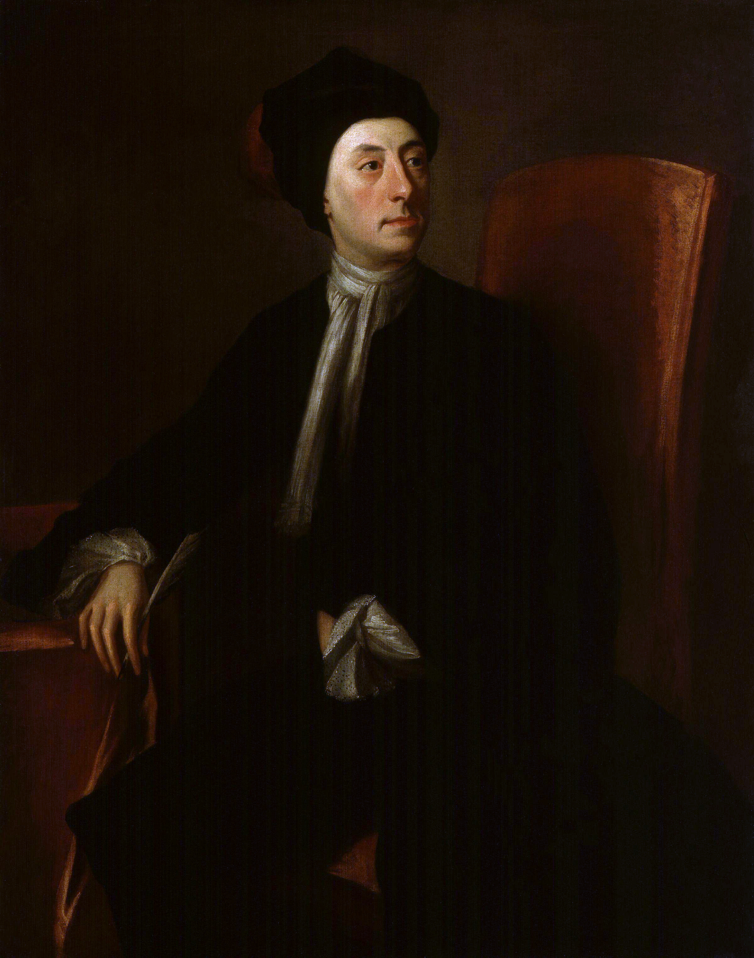 Matthew Prior, by Jonathan Richardson (died 1745), given to the National Portrait Gallery, London in 1860. All images in this batch have been confirmed as author died before 1939 according to the official death date listed by the NPG.